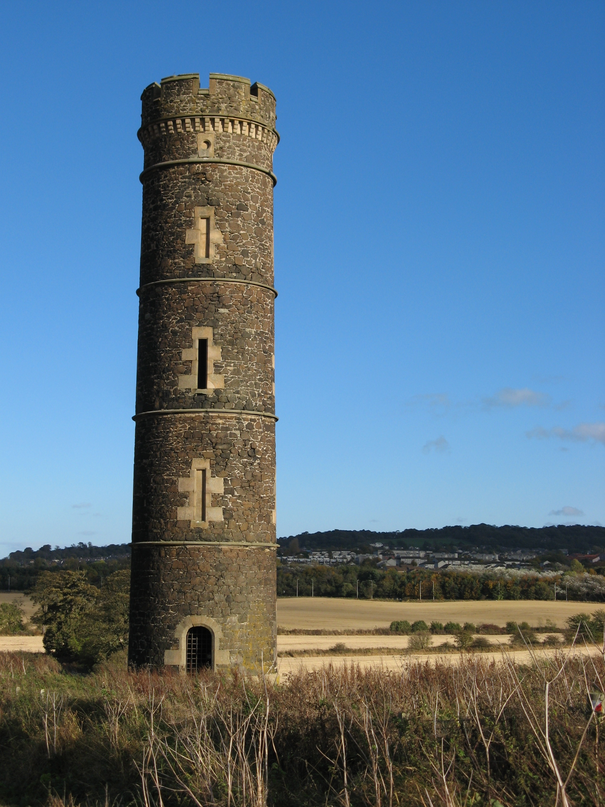 Water Tower on the estate of the demolished Cammo House, north-west edge of Edinburgh, Scotland.